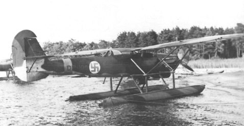 The Dornier Do 22 Kf (DR-196) in Finnish Air Force service